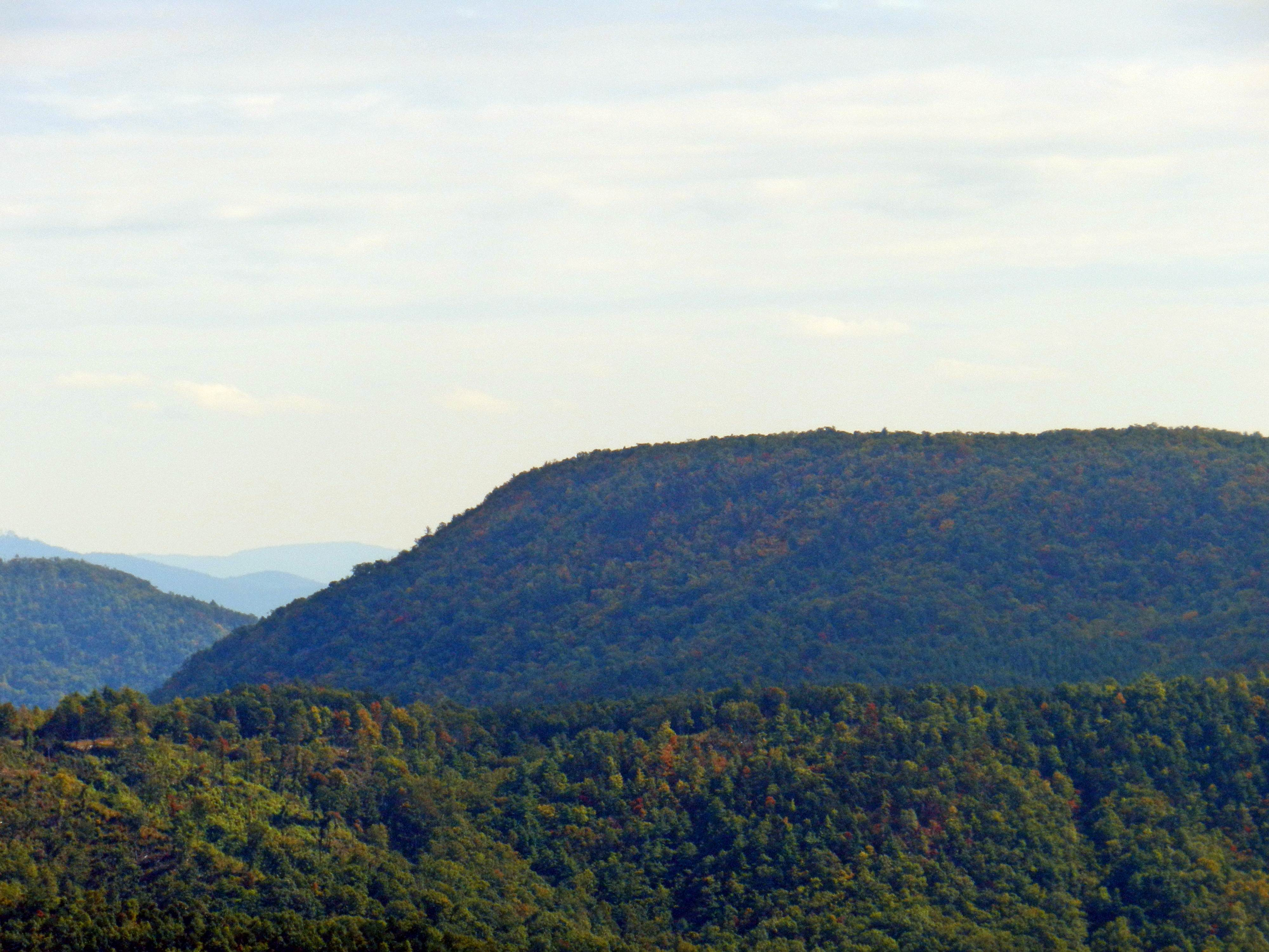 Brown Mountain in Pisgah National Forest, North Carolina